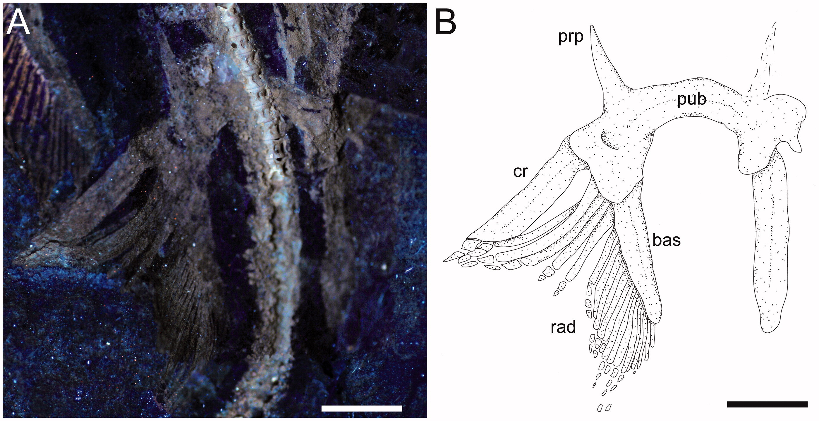 Figure 6: Ostarriraja parva gen. et sp. nov. from the early Miocene of Upper Austria. A, NHMW 2005z0283/0097, close-up of the pelvic girdle and fins of the holotype under UV light; B, restoration. Abbreviations: bas, basipterygium; cr, compound radial; prp, prepelvic process; pub, puboischiadic bar; rad, radials. Scale bars: 10 mm.